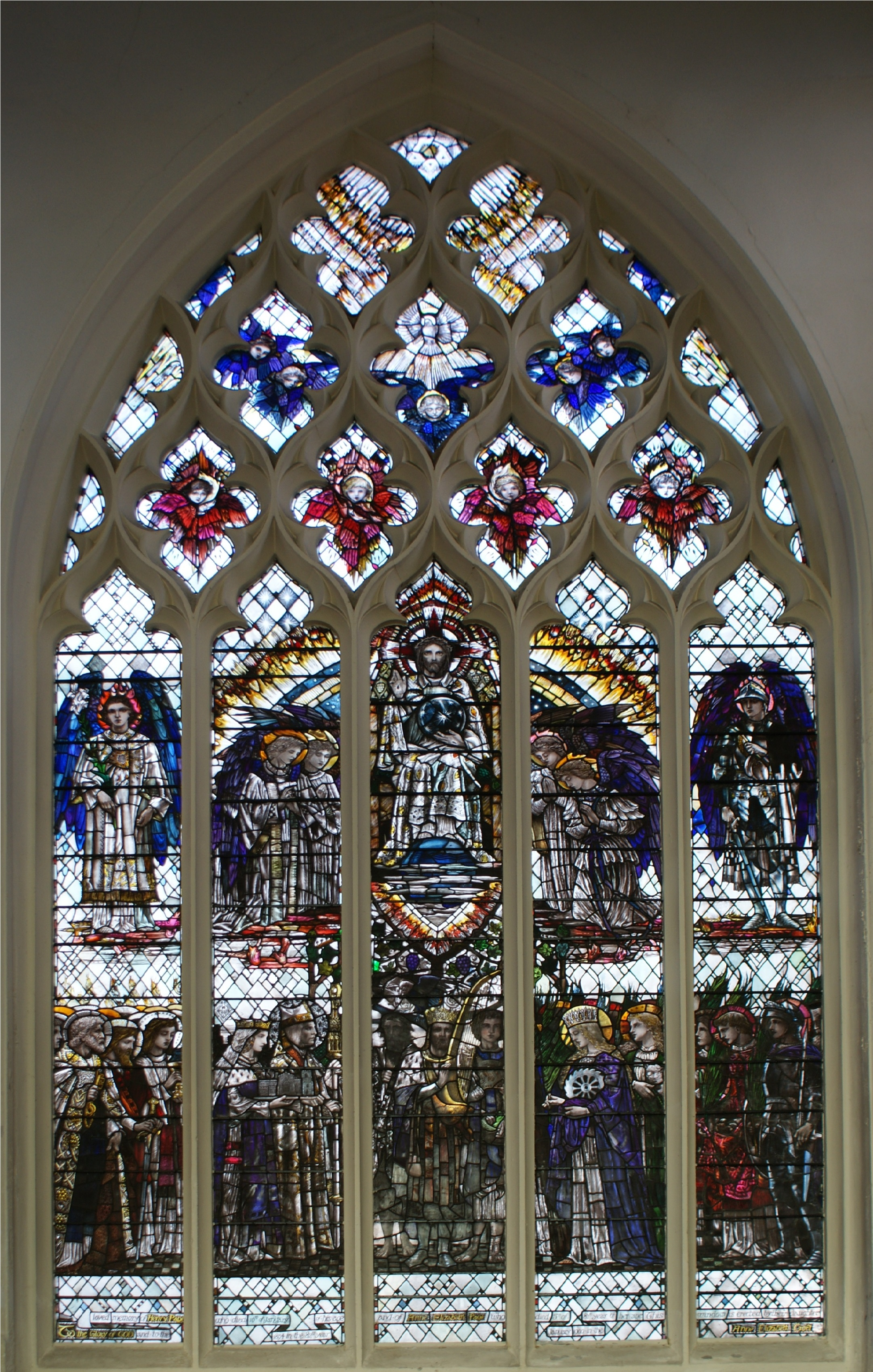 The Te Deum window by Christopher Whall, St Mary the Virgin, Ware.